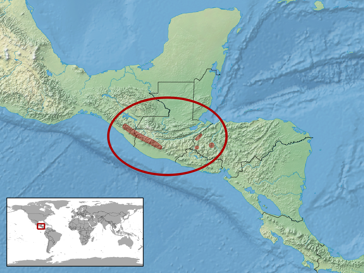 geographic distribution of Bothriechis bicolor (Native: Guatemala; Honduras; Mexico)